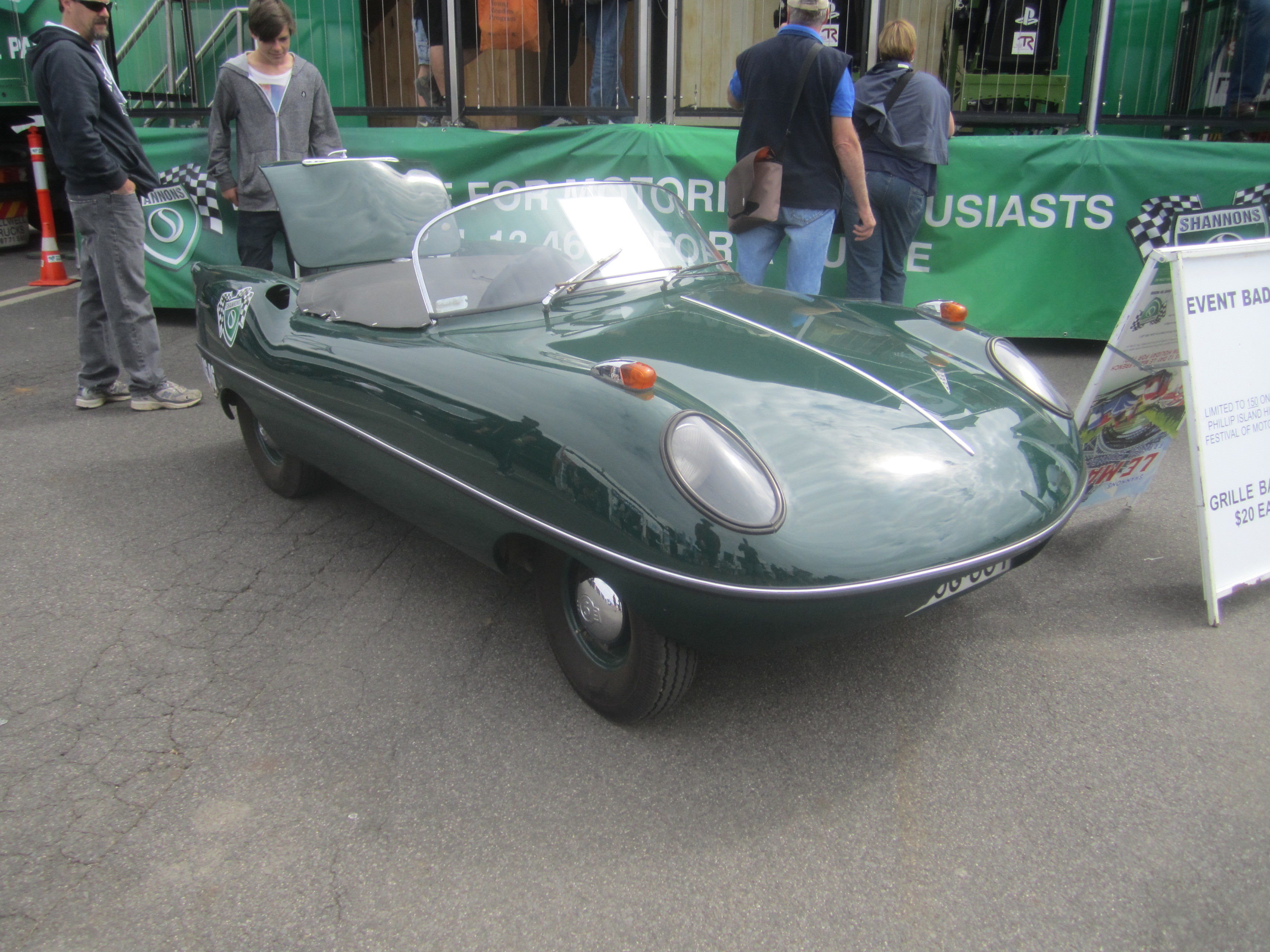 Goggomobil produced very small cars, they were built in the Bavarian town Dingolfing. 3 models were available; the T sedan, the TS coupe, and the TL van. The engine was an air-cooled, two-stroke, two-cylinder unit originally displacing 250 cc, but later available in increased sizes of 300 cc and 400 cc. Between 1957 and 1961 some 700 sports cars called Goggomobil Darts were produced by Buckle Motors Pty Ltd in Sydney, Australia. These were fitted with Australian produced fibreglass bodies in place of the steel bodies of their German counterparts